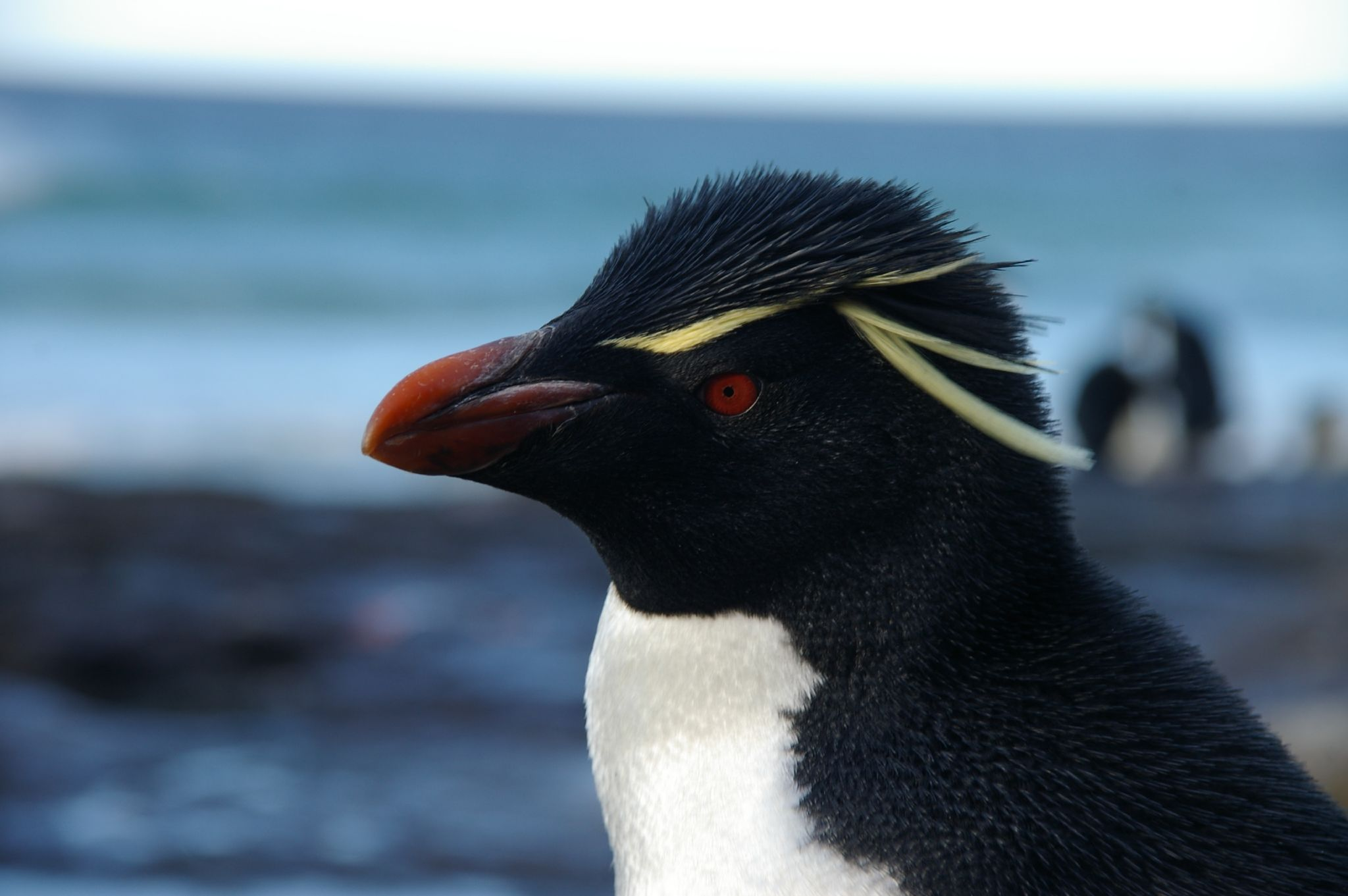 (Southern) Rockhopper Penguin (Eudyptes chrysocome), Saunders Island, Falkland Islands